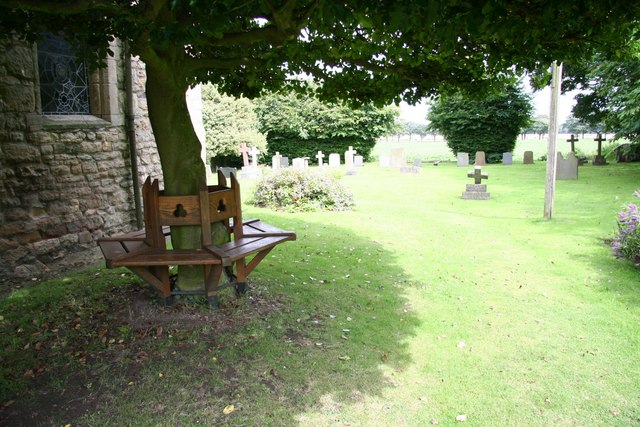 A bench in St James' parish churchyard, High Melton, South Yorkshire, England